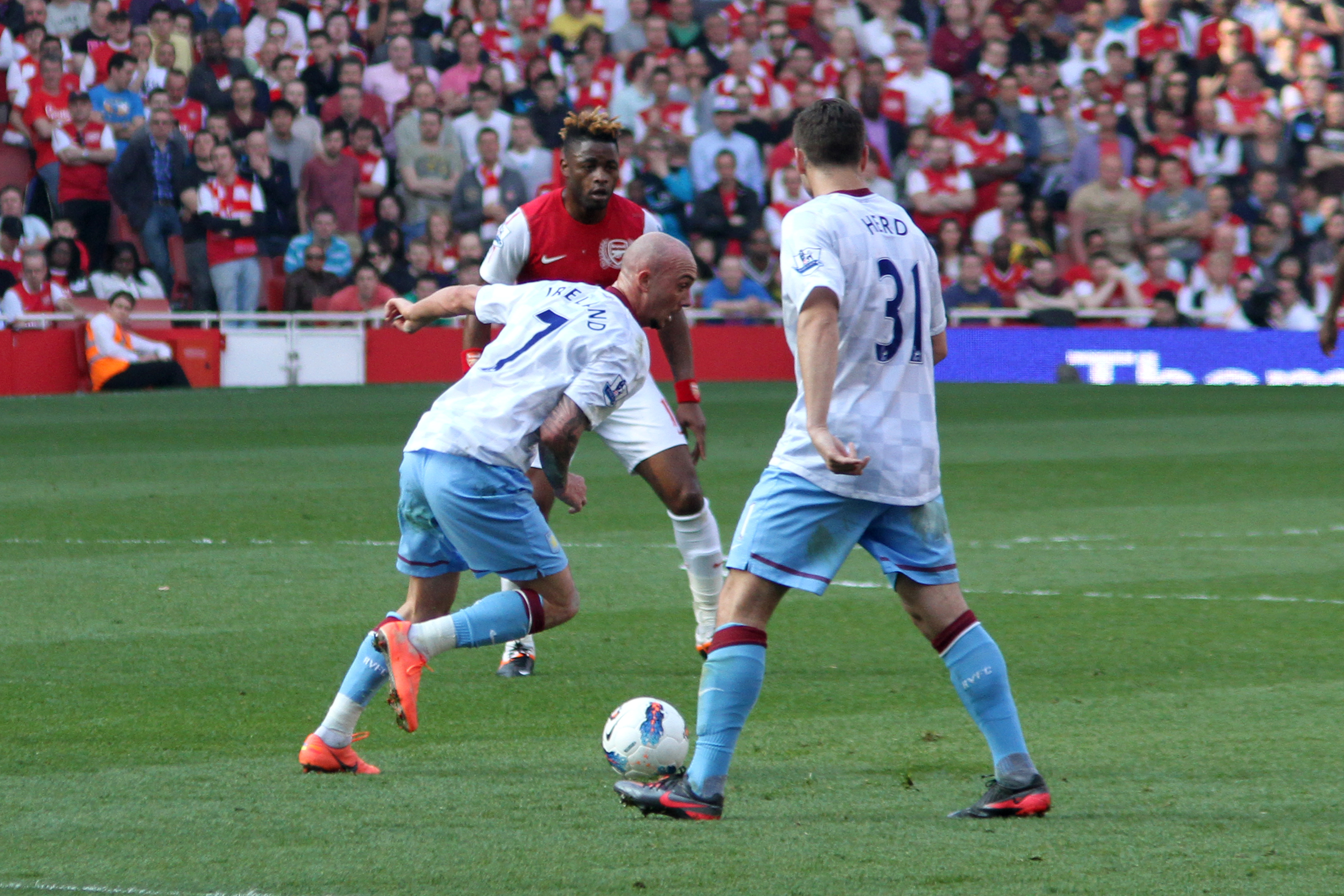 Arsenal vs Aston Villa, March 2012